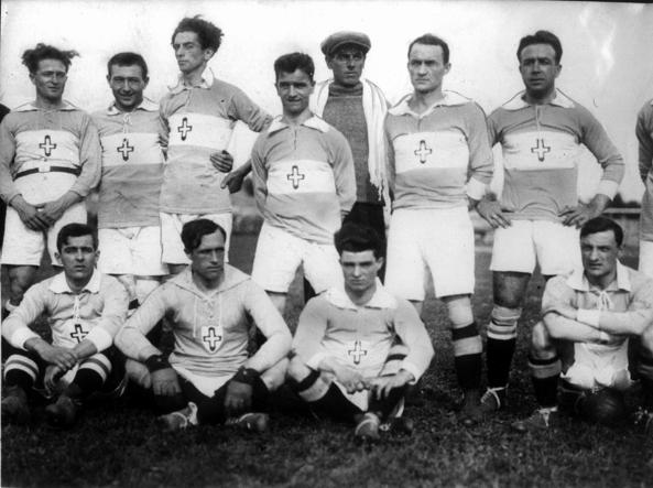 A line-up of U.S. Novese in the 1921–22 season.